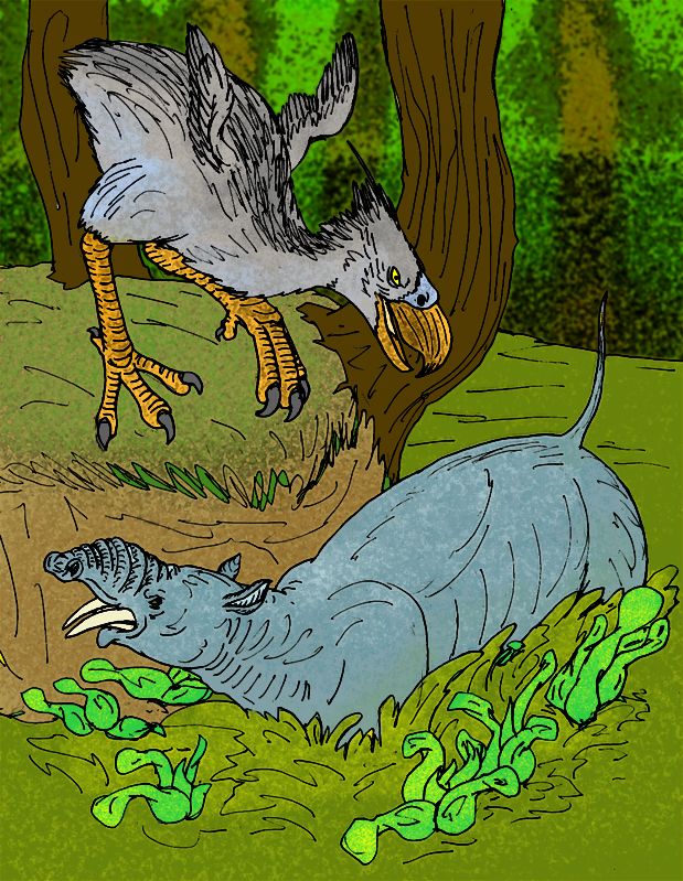 Reconstruction of the South American ungulate Astrapotherium magnum being harassed by the terror bird Phorusrhacos longissimus.